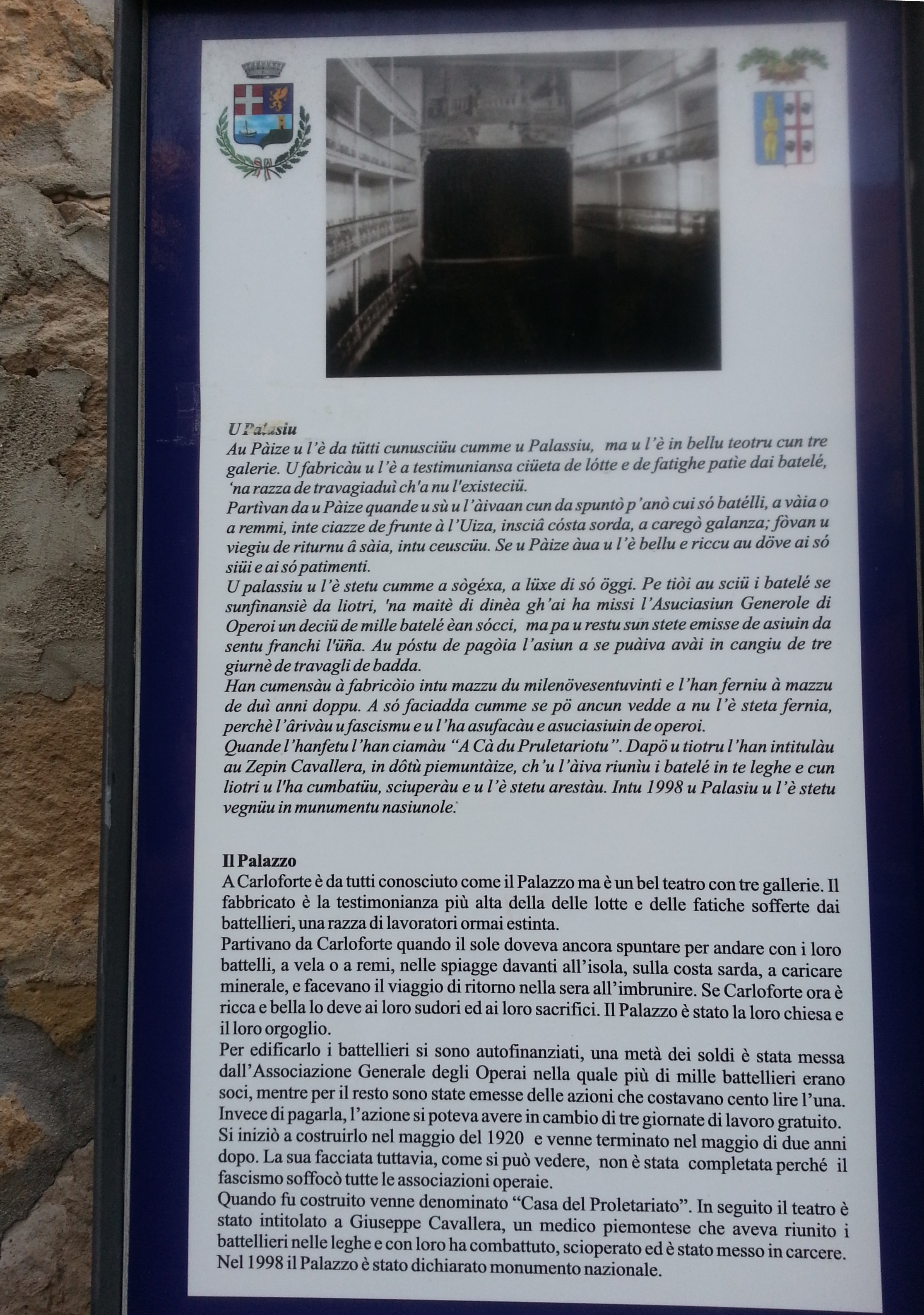 Information panel on Palazzo Cavallera (Carloforte, Sardinia)